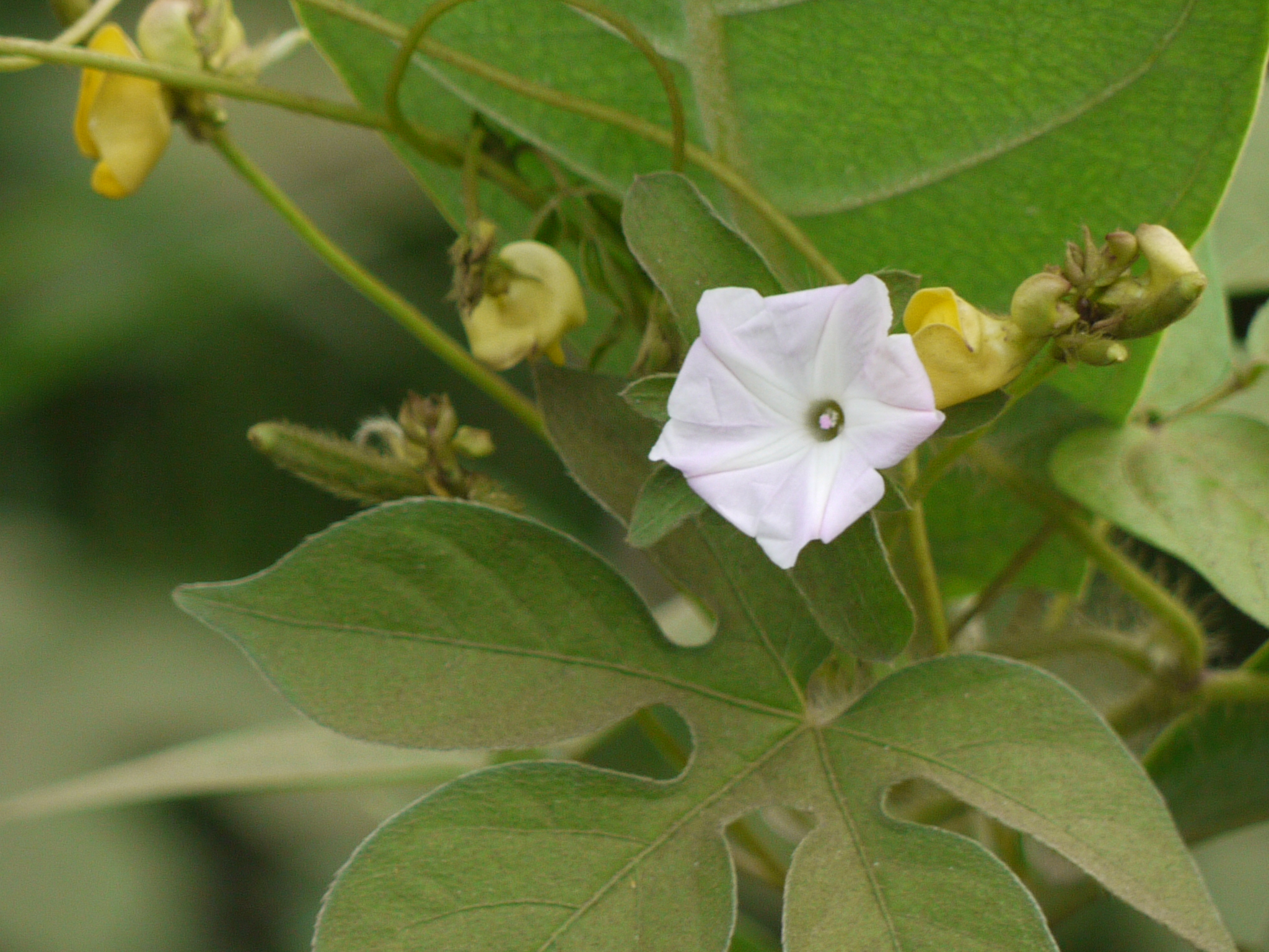 Convolvulaceae (convolvulus, bindweed, or morning glory family) » Ipomoea pes-tigridis ip-oh-MEE-uh or ip-oh-MAY-uh -- meaning, worm-like; referring to coiled flower bud pes ty-GRID-ih-diss -- meaning, tiger's foot commonly known as: tiger's paw glory, tiger's foot bindweed, tiger foot morning glory, trailing ipomoea • Bengali: অংগুলী লতা anguli lota • Gujarati: વાઘપાદની વેલ vaghpadni vel • Hindi: पंचपतिया panchpatia, पंचपत्री panchpatri • Konkani: arti • Malayalam: puliccuvadi • Marathi: वाघपदी vaghpadi, वाघपंजा vaghpanja • Oriya: billenandi • Tamil: புலிச்சுவடி puli-c-cuvati • Telugu: మెకముఅడుగు mekamuadugu Native of: tropical Africa and Asia; naturalized in most tropical countries References: Flowers of India • eFlora • PIER • NPGS / GRIN • ENVIS - FRLHT • DDSA